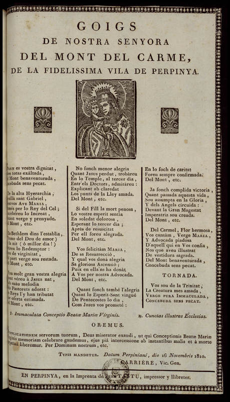 Goigs, printed in Perpignan by P. Tastu in 1810